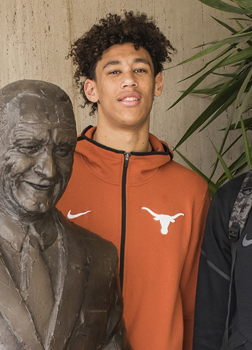 University of Texas basketball team members tour the Get In The Game exhibit at the LBJ Library. Brock Cunningham, Gerald Liddell, Kamaka Hepa, Jaxson Hayes, Jericho Sims and Courtney Ramey pose for a photo with a statue of President Johnson. LBJ Library photo by Jay Godwin 11/27/2018